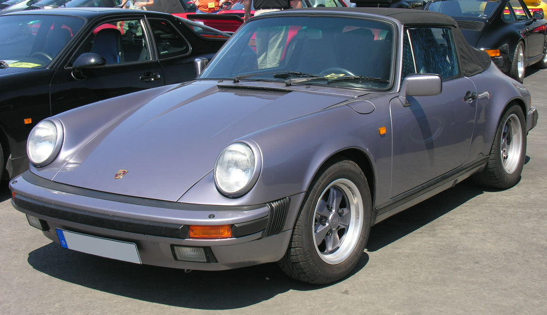 Porsche 911 Jubimodell. Photo taken on Nürburgring.